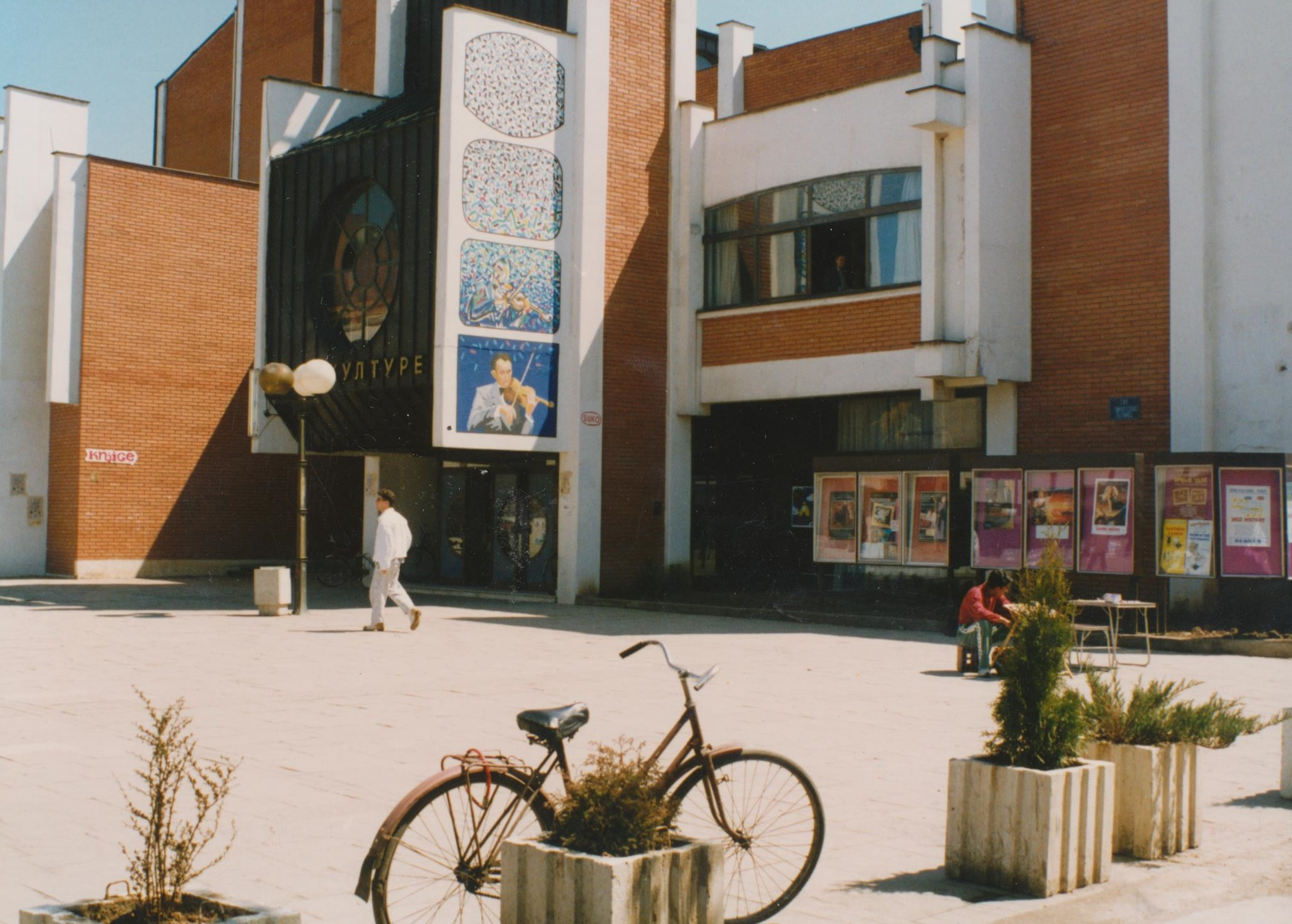 Cinema in Pirot